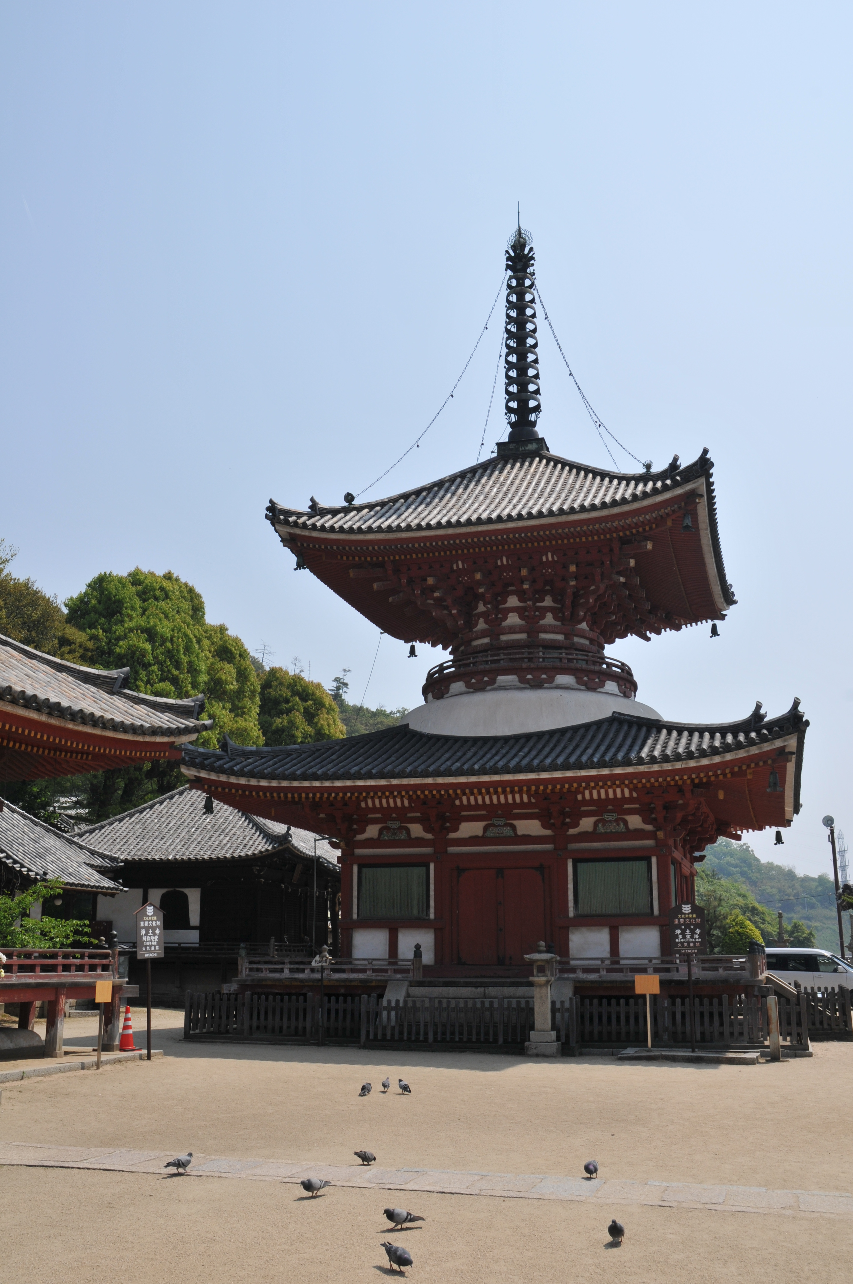 Taho-to(National treasure of Japan)